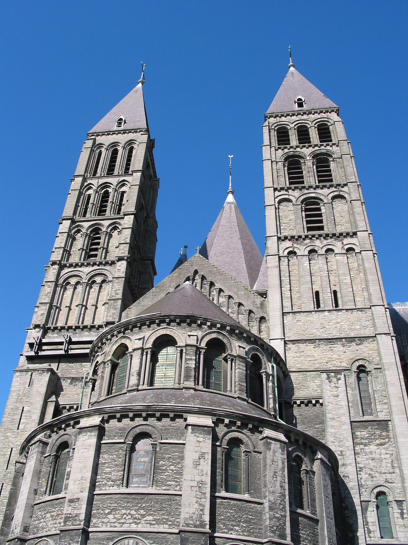 Tournai (Belgium), the five towers of the Notre-Dame (Our Lady) cathedral (XIIth century).